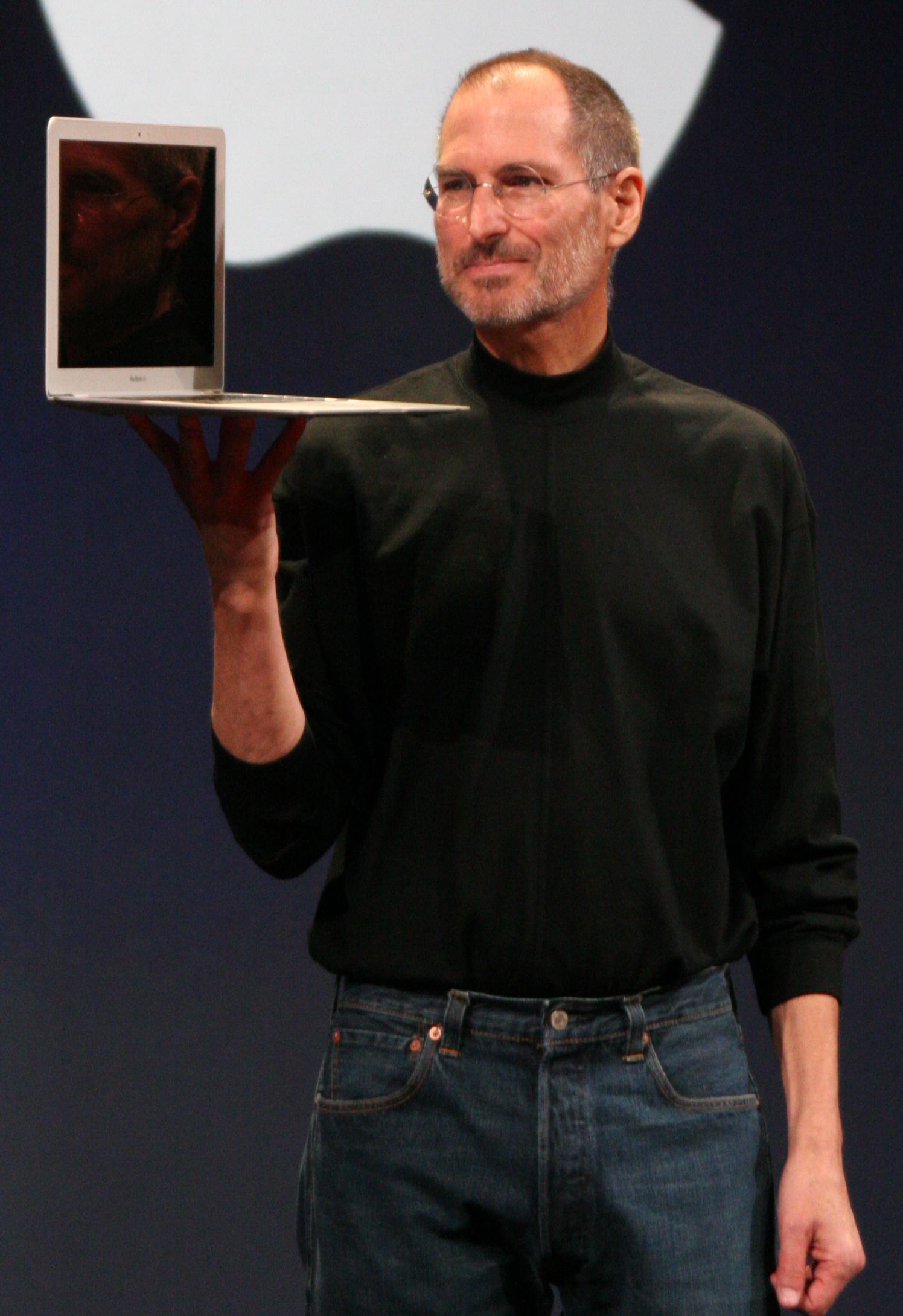 A cropped version of Image:SteveJobsMacbookAir.JPG. Steve Jobs holding a MacBook Air (at MacWorld Conference & Expo 2008 - Moscone Center - San Francisco, CA)